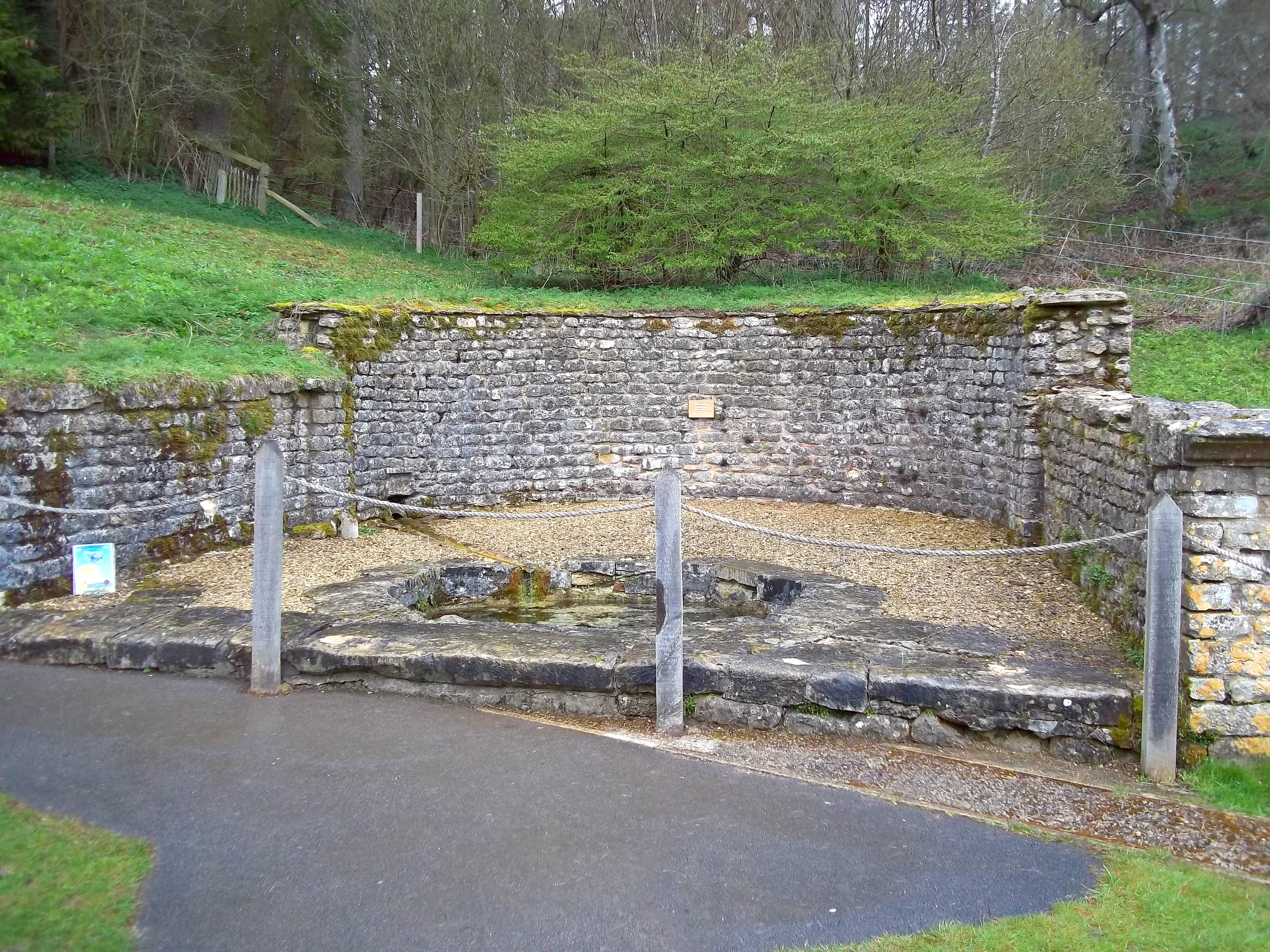 Chedworth Roman Villa -- Nymphaeum